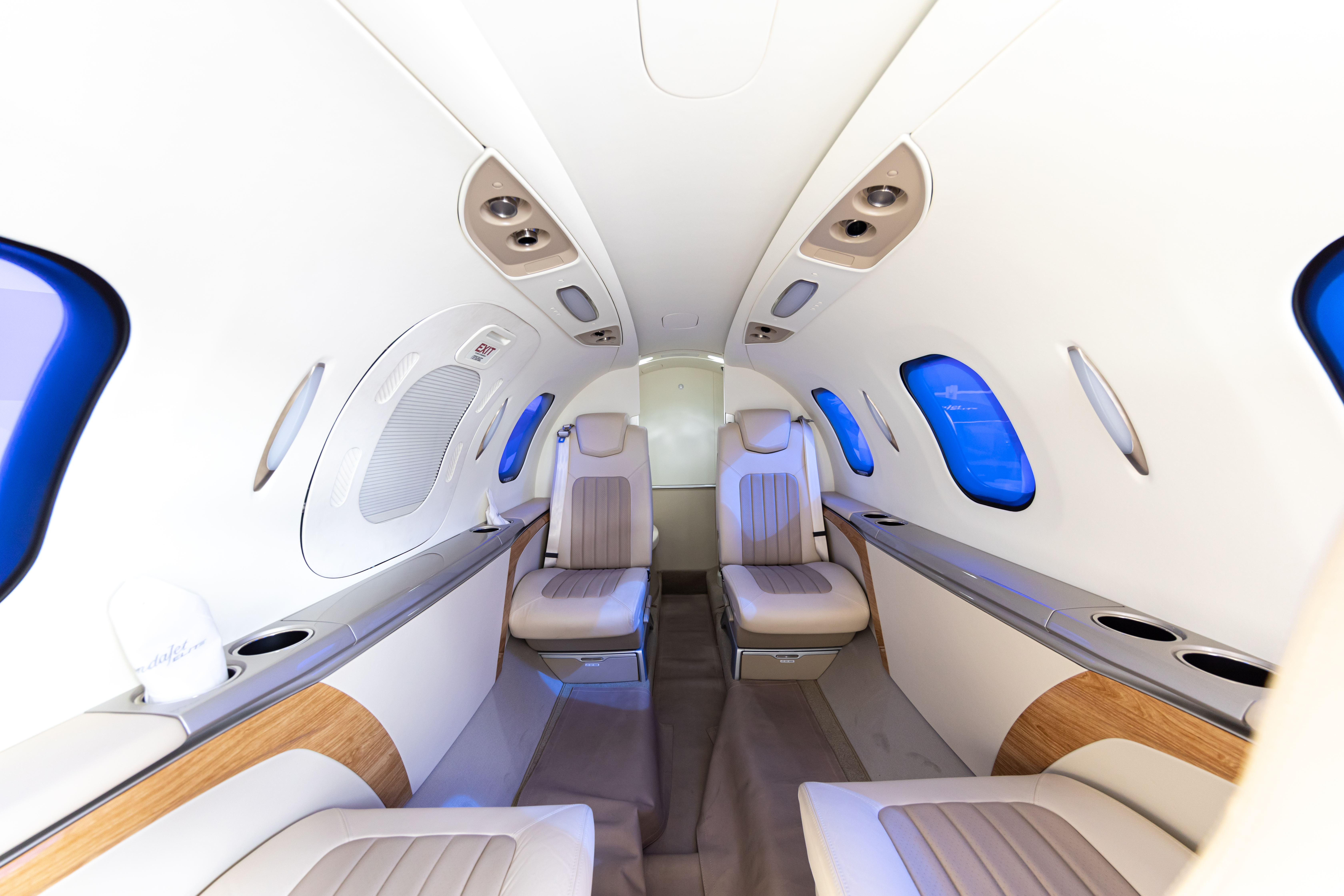 Interior of a HondaJet at Paris Air Show 2019